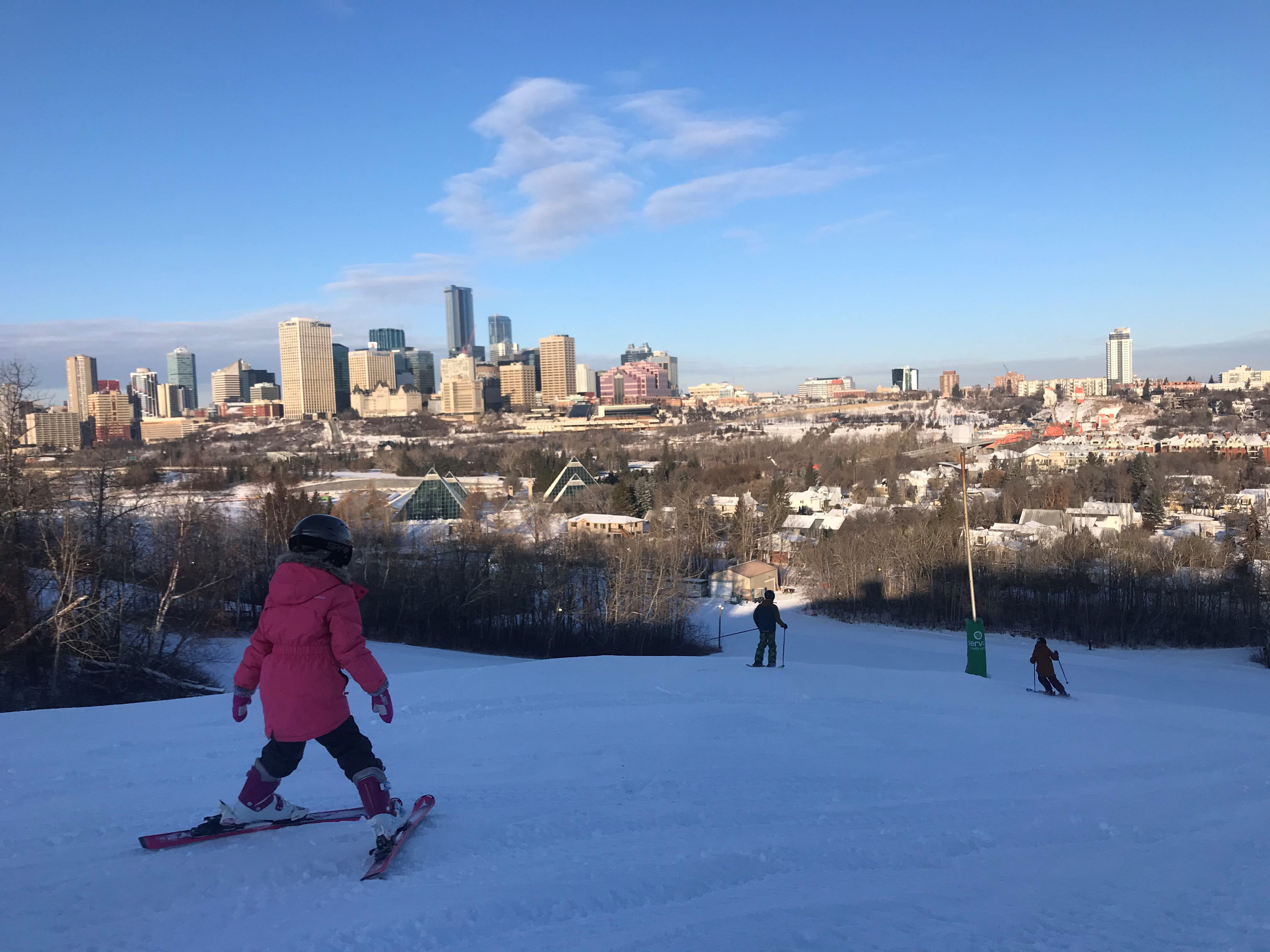 Looking downhill, toward downtown Edmonton from the top of the Edmonton Ski Club T-Bar